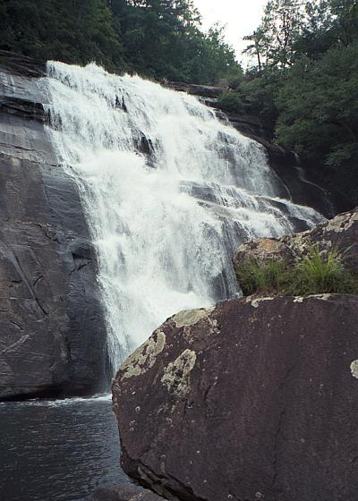 Rainbow Falls on the Horsepasture River. It's a difficult climb down to this vantage point at the bottom. Taken in 1998 or 1999.